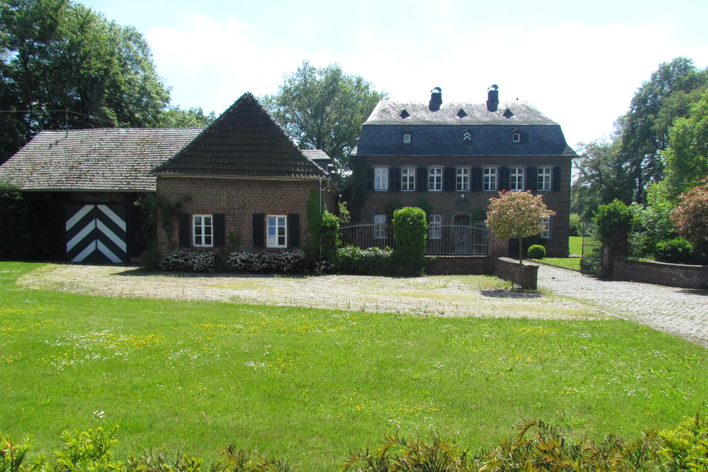 This is a photograph of an architectural monument.It is on the list of cultural monuments of Korschenbroich